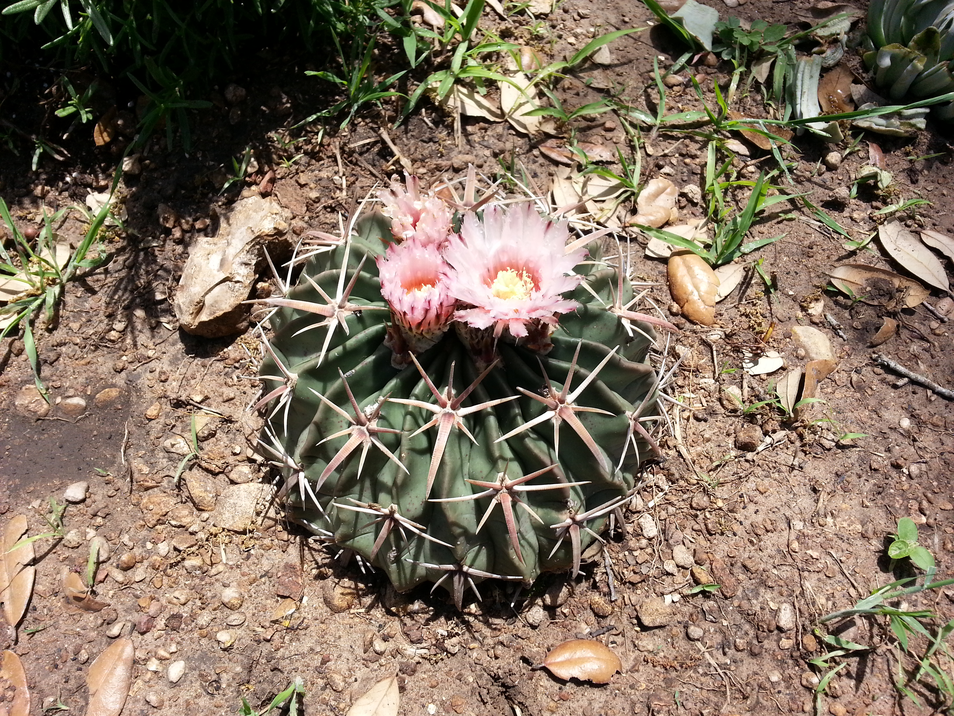 A variation of the barrel cactus. Blooms in late April. Very draught hardy.